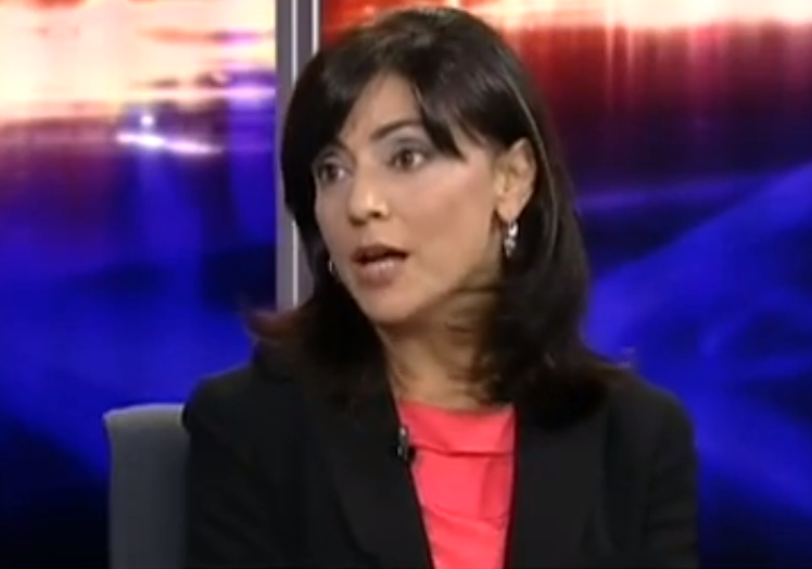 Sibel Edmonds. Cropped from the video on Youtube to show Edmonds only.